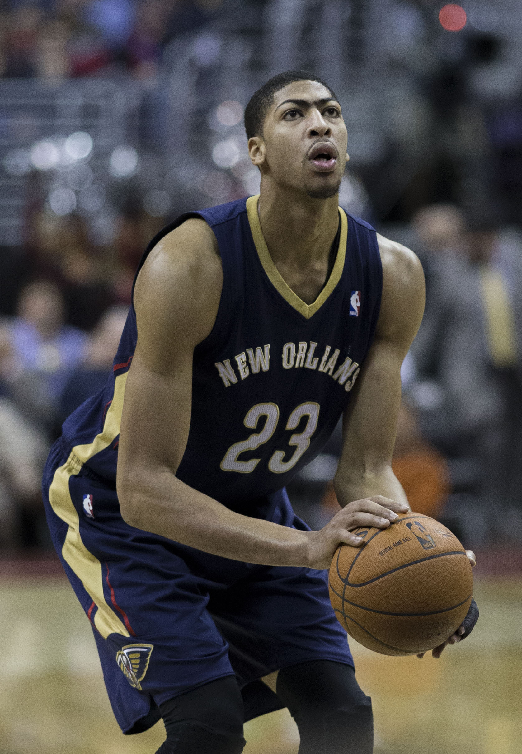 Pelicans at Wizards 2/22/14